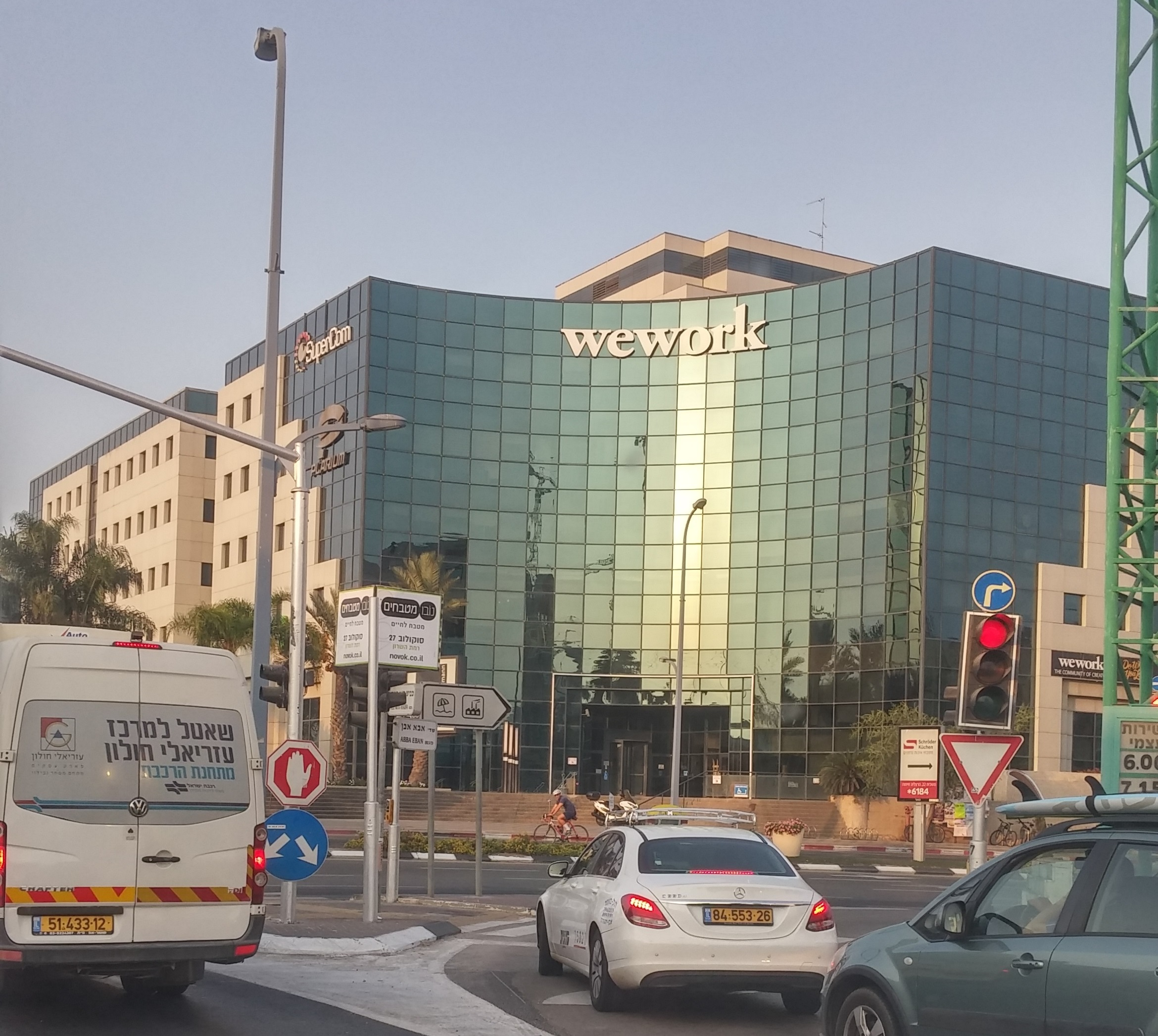 WeWork Herzliya, Israel